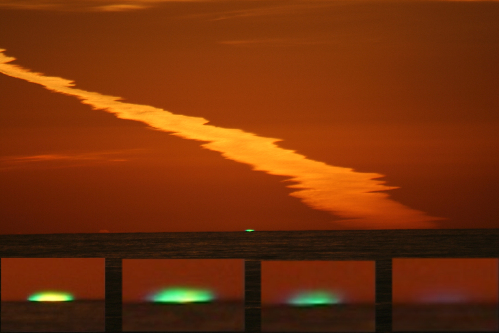 Green Flash in Santa Cruz, California. Here's what green flash specialist Andy Young writes about the sequence: "One of Brocken Inaglory's recent GF pictures. She has been collecting flashes since late 2005 in San Francisco. This one turns out to be a little more complicated than a simple inferior-mirage flash (I've seen her other frames of this sunset).Notice the gradation in color within the flash: yellowish in the center, bluish at the extreme ends. This picture also shows the effect of atmospheric reddening well in the prominent contrail. The orangish hue of the sky, and the visibility of blue in the flash, are indications of extremely clear air.In addition, there's a small cloud beyond the horizon, miraged by the same layers near the sea surface that stretch the normally invisible green rim into a green flash. It's to the left of the flash, and about the same size; notice that it's exactly the same height above the horizon as the flash."